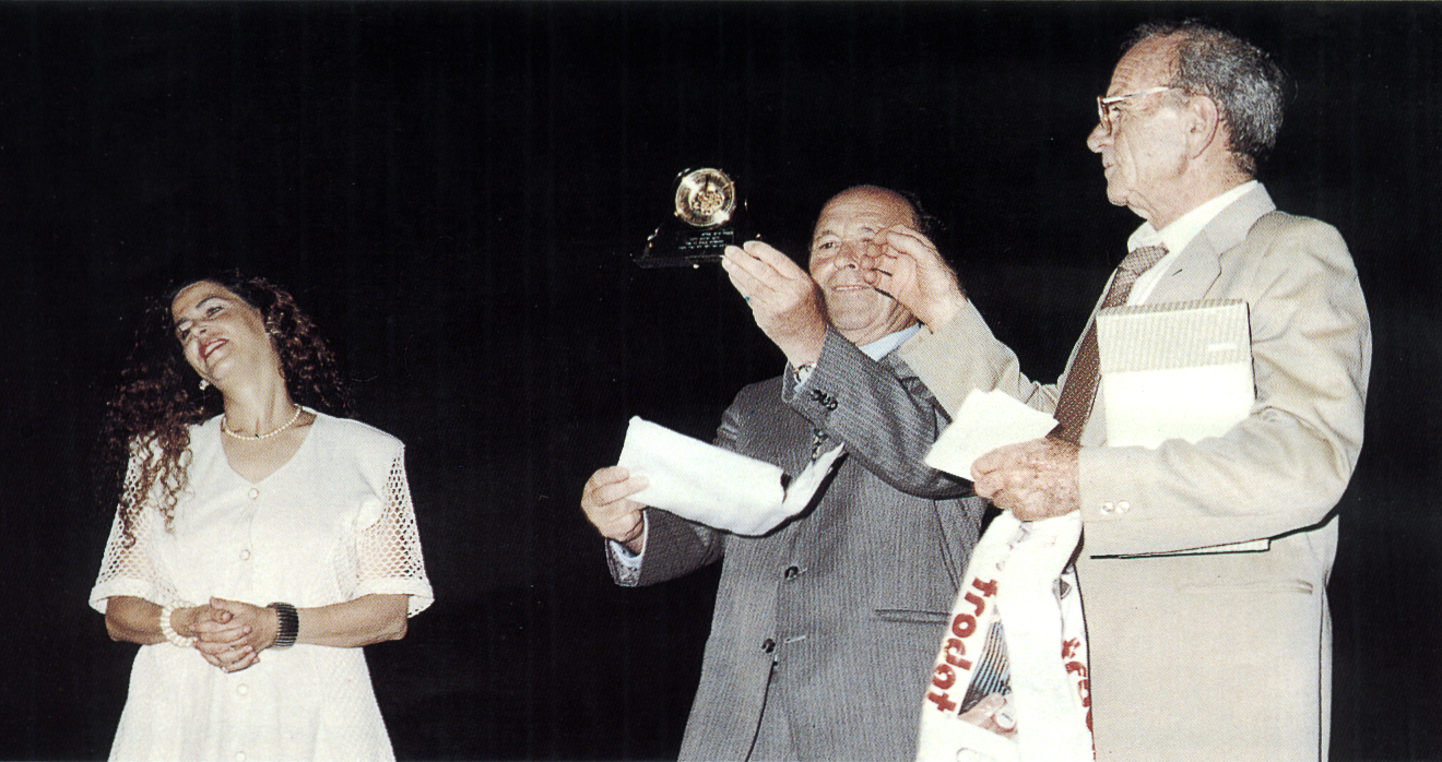 A photo of Moshe Shem Tov stood on the right, when Asher Strolovitz, Chairman of Acha's Tel Aviv branch was gifted a watch from Suzy Roymee, Chairwoman of Acha's Nethanya branch, in the celebration of Fifty Years of Acha Tel Aviv branch on 28th May 1994, at the amphitheatre at Yarkon Park in Tel Aviv.